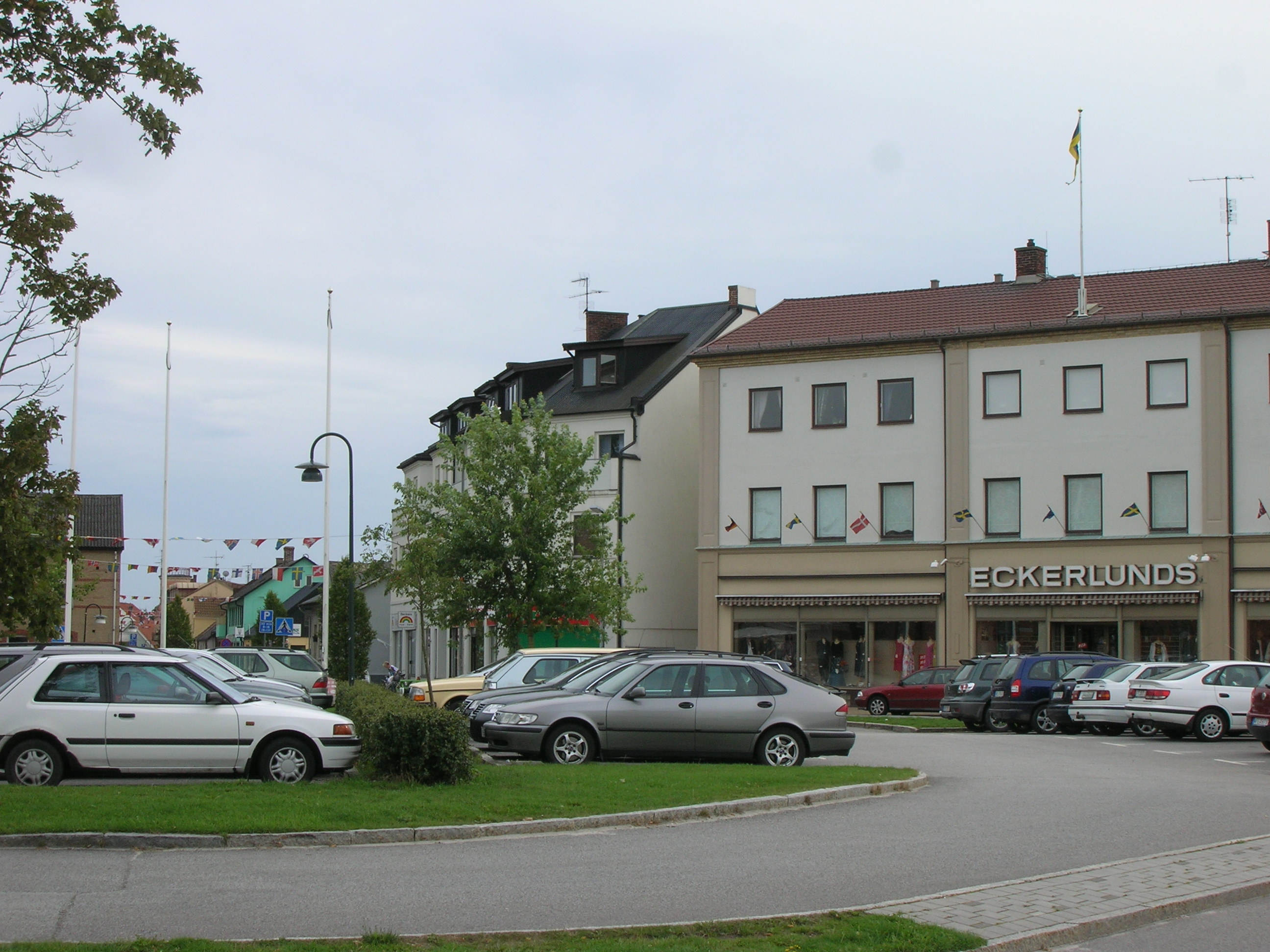 Tomelilla in Sweden.